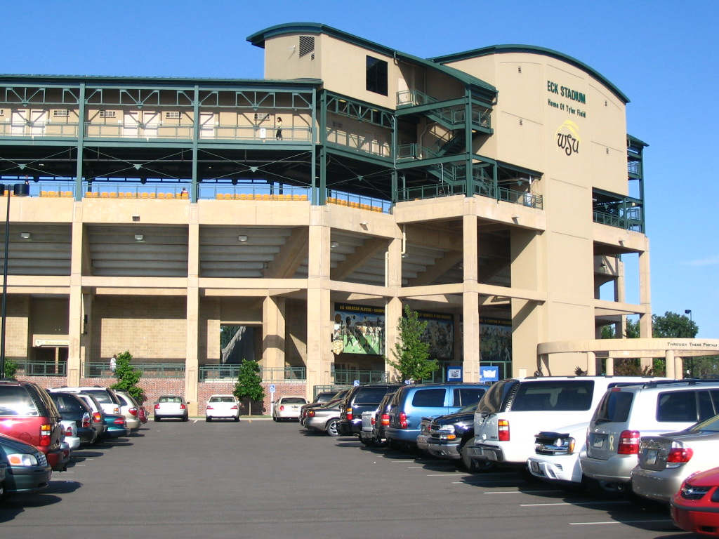 Eck Stadium from the west.